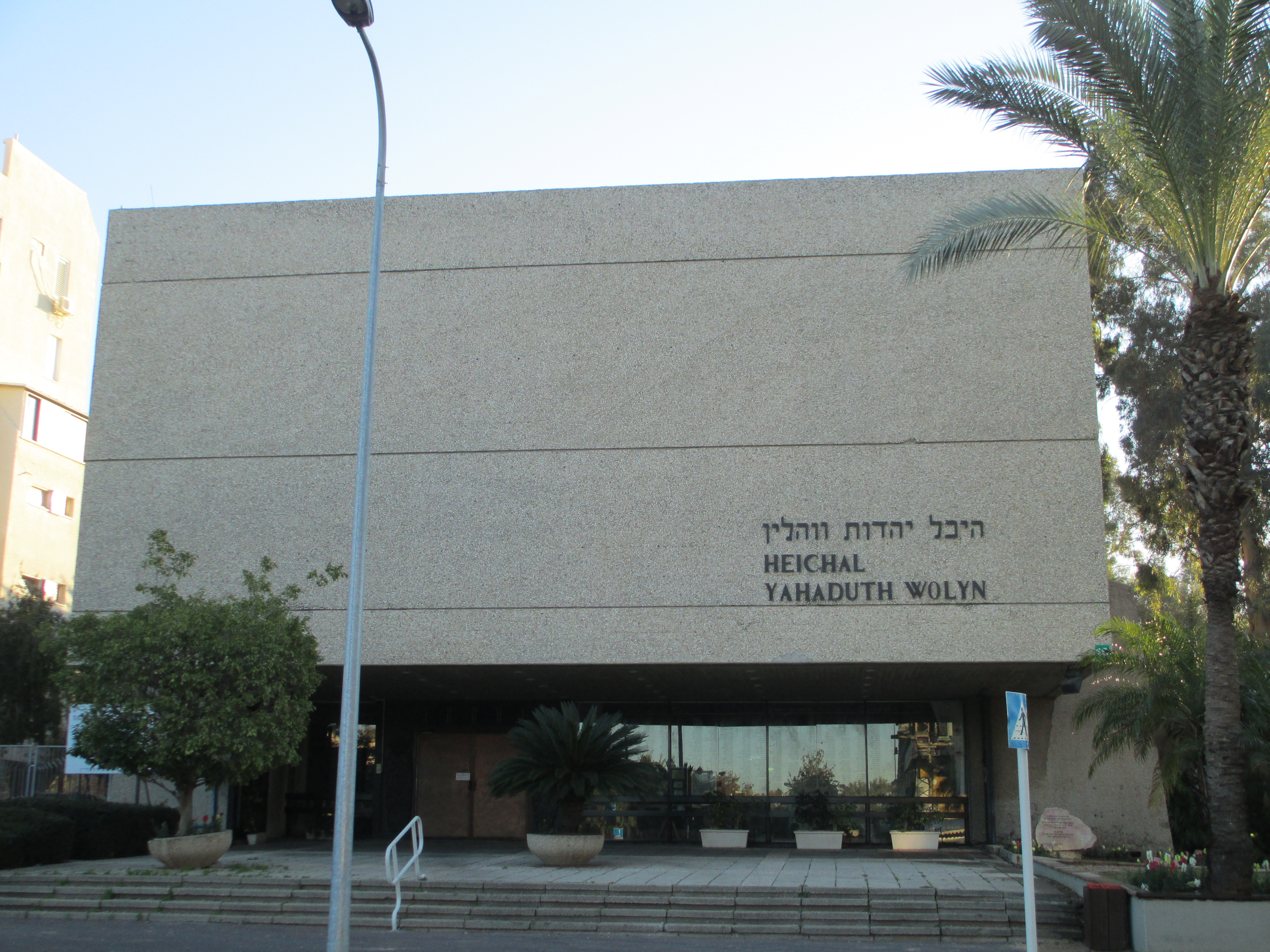 Vohlyn Jewry house in Giv'atayim